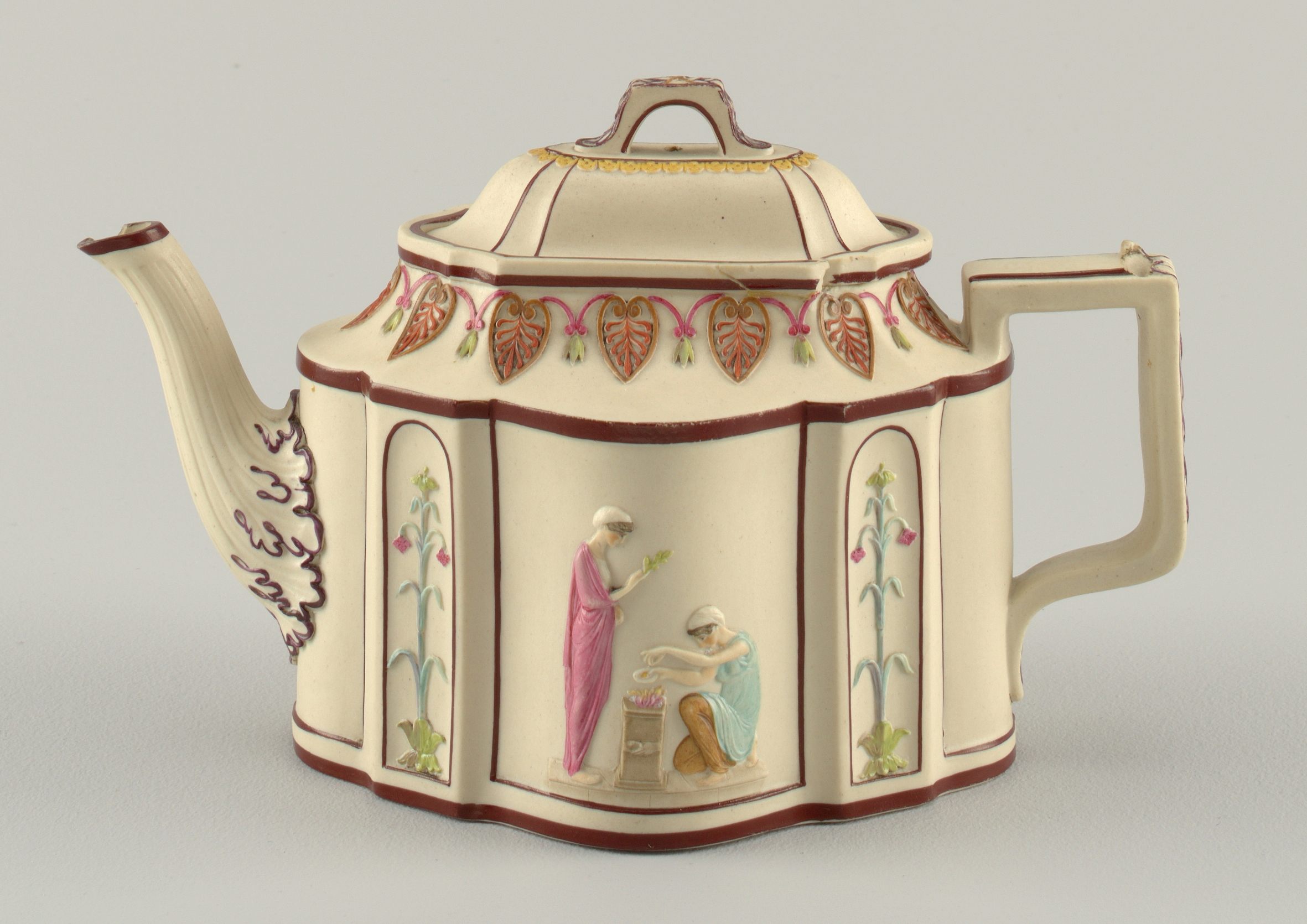 Silversmith’s shape: oblong with four bowed panels alternating with four rectangular panels containing niches; long ogee spout, rectangular flat handle. Oblong domed cover with strap handle, sliding in grooves in top of pot. Relief decoration in polychrome showing classical figures in the bow panels; vines in niches; lotus and anthemion band about cavetto shoulder, leaves on handle, spout and cover.